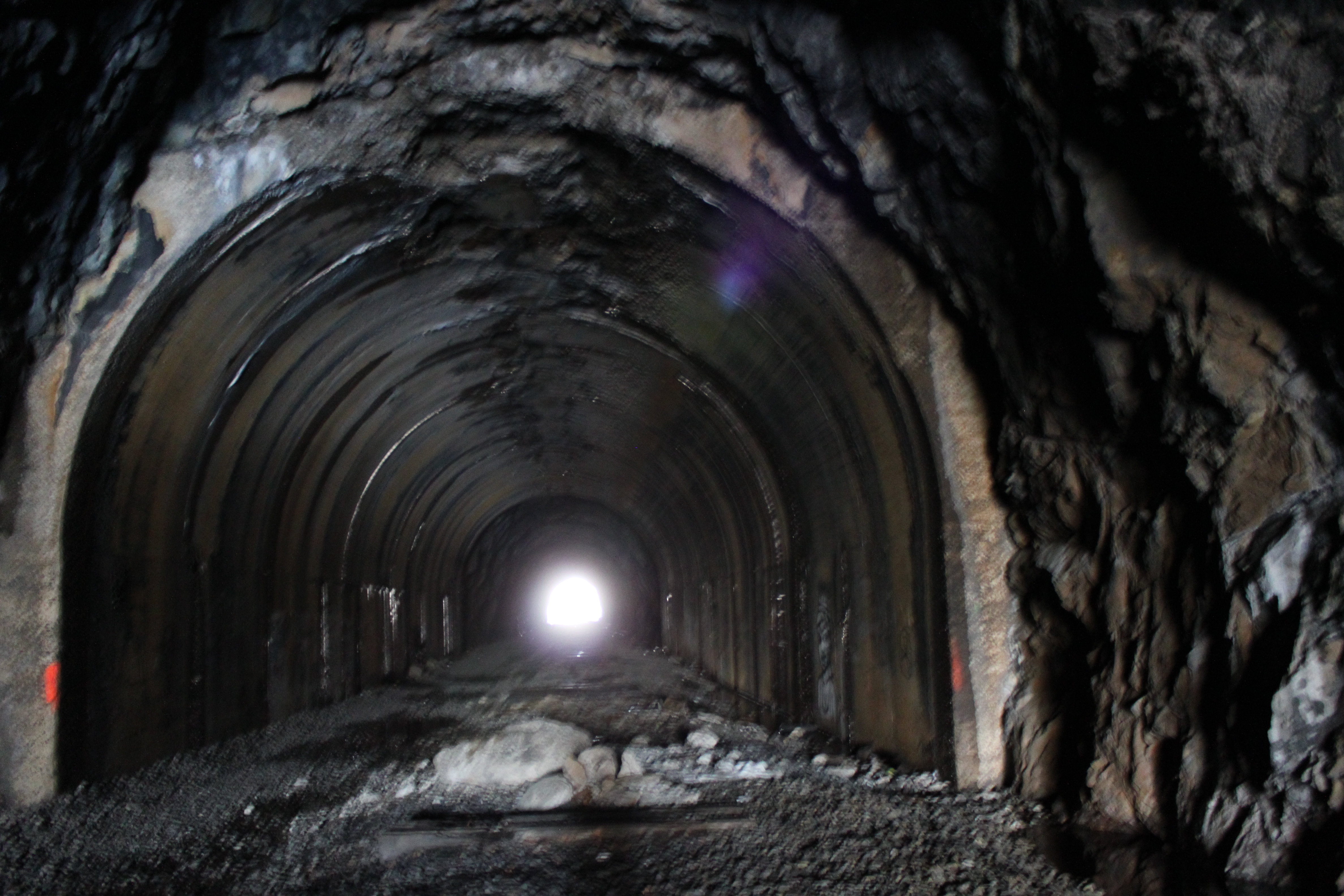 Chuck Walsh. Concrete Lining of Roseville Tunnel on the Lackawanna Cut-Off.